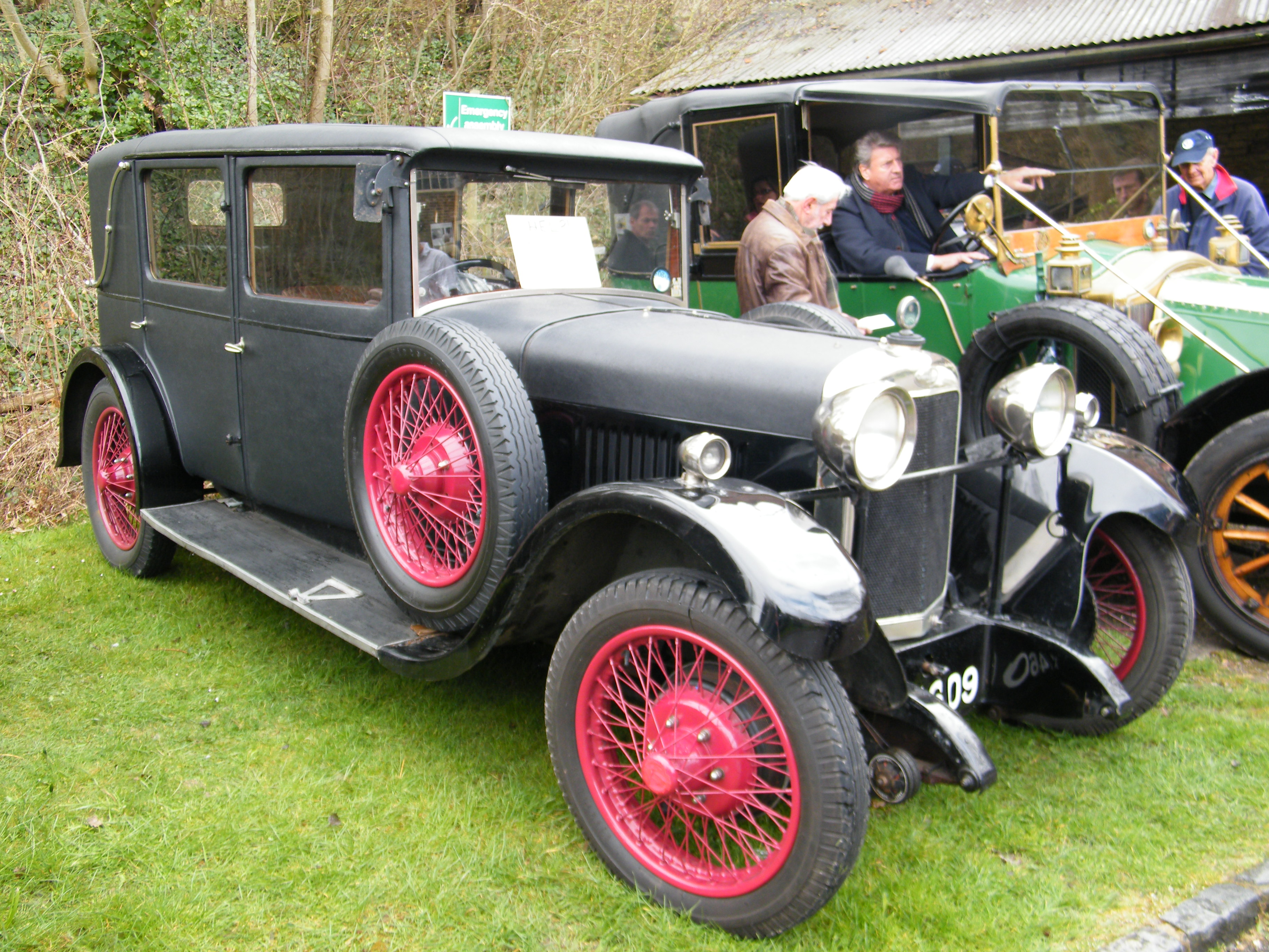 1930 Sunbean 16 (MullinerWeymann) Fabric Bodied Saloon